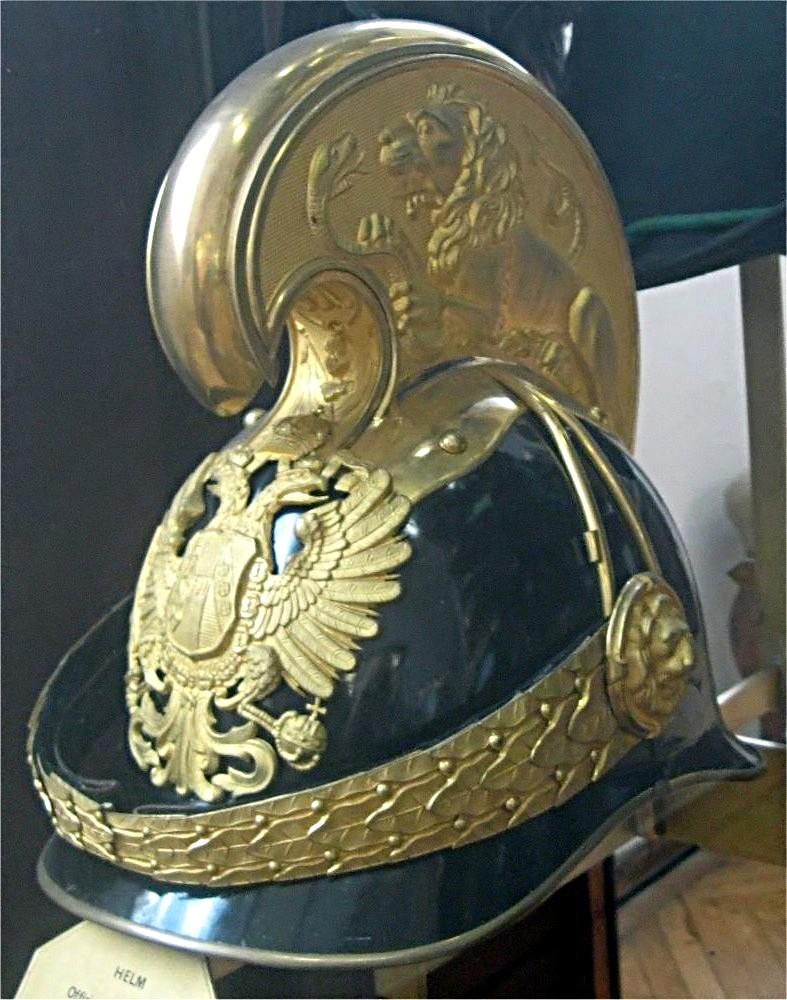 Helmet of an officer of the austro-hungarian imperial and royal dragoons